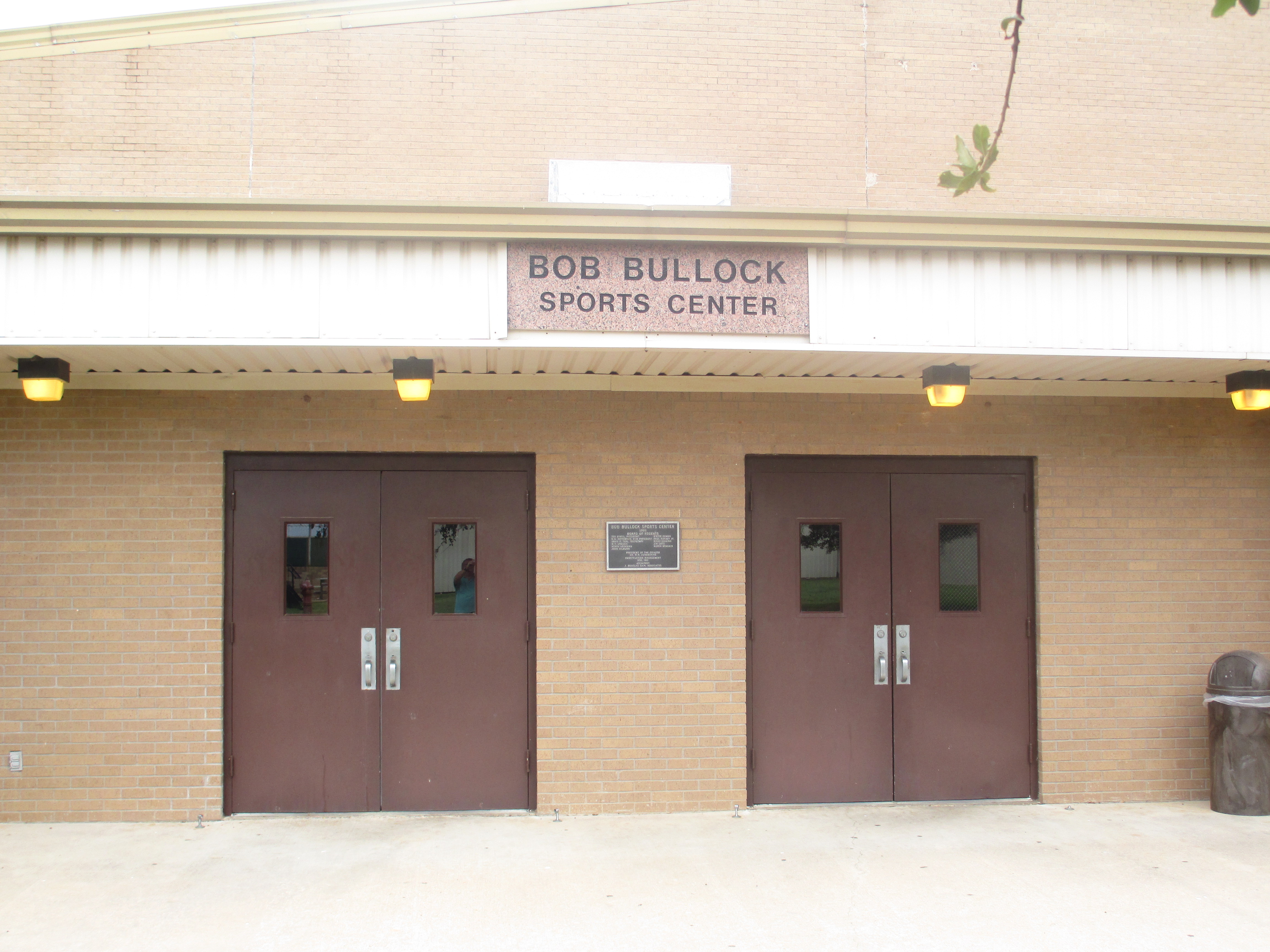 I took photo with Canon camera of Bob Bullock Sports Center in Hillsboro, TX.